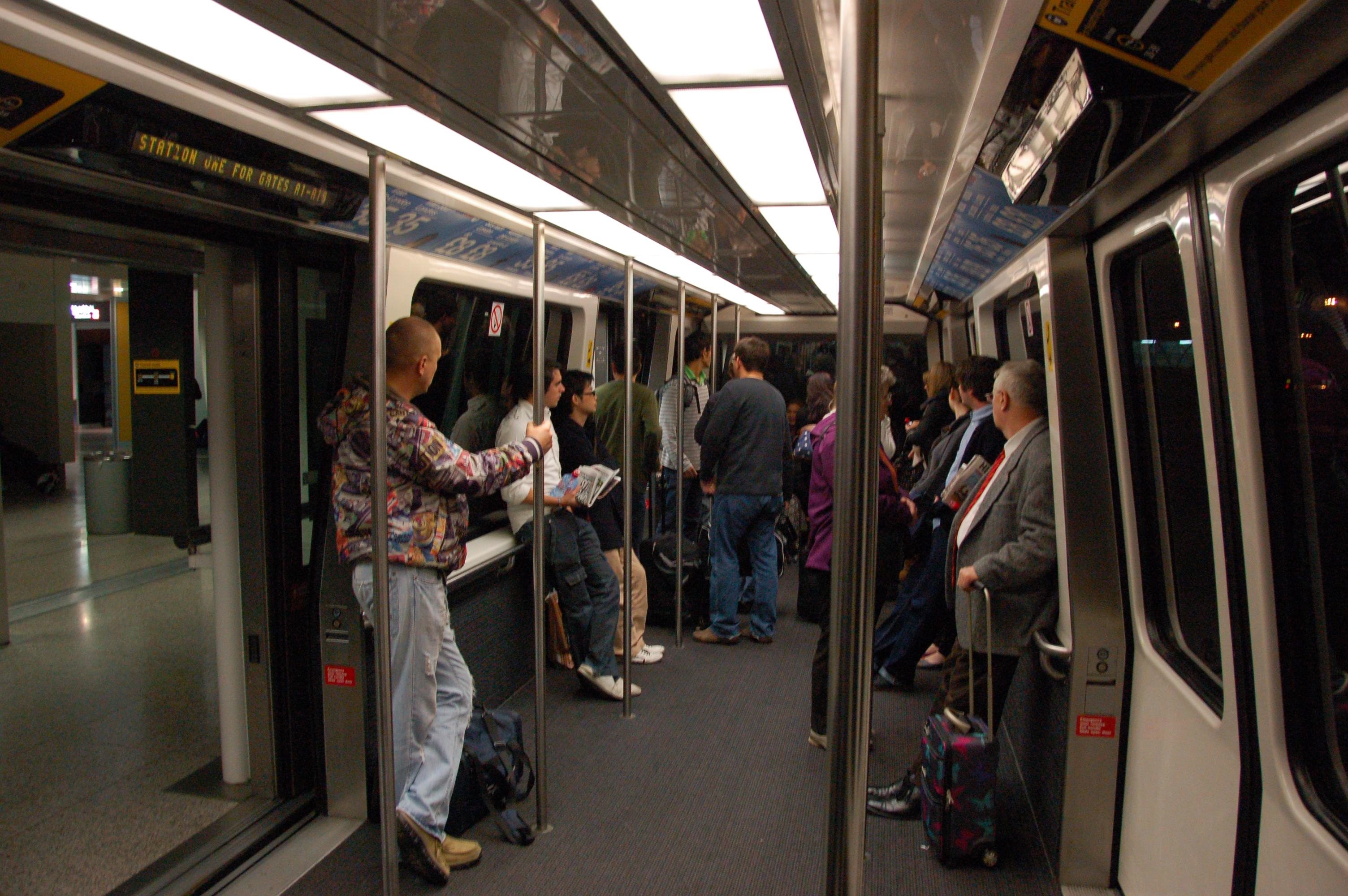 Train of the peoplemover at Stansted Airport (so-called "Stansted Airport Transit System"), UK